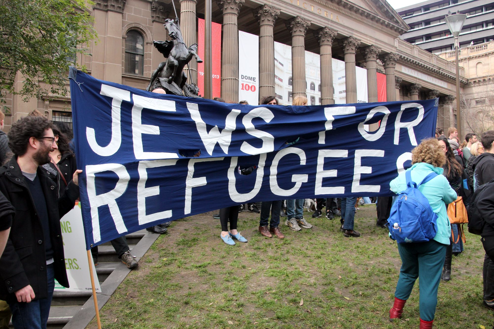 Melbourne Refugee and asylum seeker rights rally Saturday 27 July 2013, to protest both the Rudd Labor Government new proposal for assessment and resettlement of asylum seekers in Papua New Guinea, and the Liberal Party's hard line stand to use the military to turn back the boats. Both Labor and Liberal Policies are an abrogation of international codified rights to seek asylum in the UN Refugee convention after the Second World War. The protest in Melbourne gathered at the State Library, then marched down Swanston St to Bourke Street Mall, then on to Federation Square. Aboout 4000 to 5000 attended the rally including a significant cross section in ages, and political sophistication. Many people had home made signs. Folk singer/songwriter Les Thomas started the rally with some great songs. A number of speakers included Adam Bandt, Greens MP for Melbourne, Pamela Curr from the Asylum Seeker Resource Centre, Margarita Windisch, Socialist Alliance candidate for Wills, Leslie Cannold no 2 Victorian senate candidate after Julian Assange for the Wikileaks Party, and Dr Colin Long, President of the Victorian Trades Hall Council. Rallies were also held in Brisbane, Adelaide and Perth.